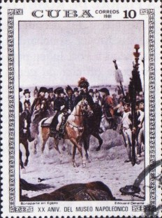 Dans la suite du général en chef